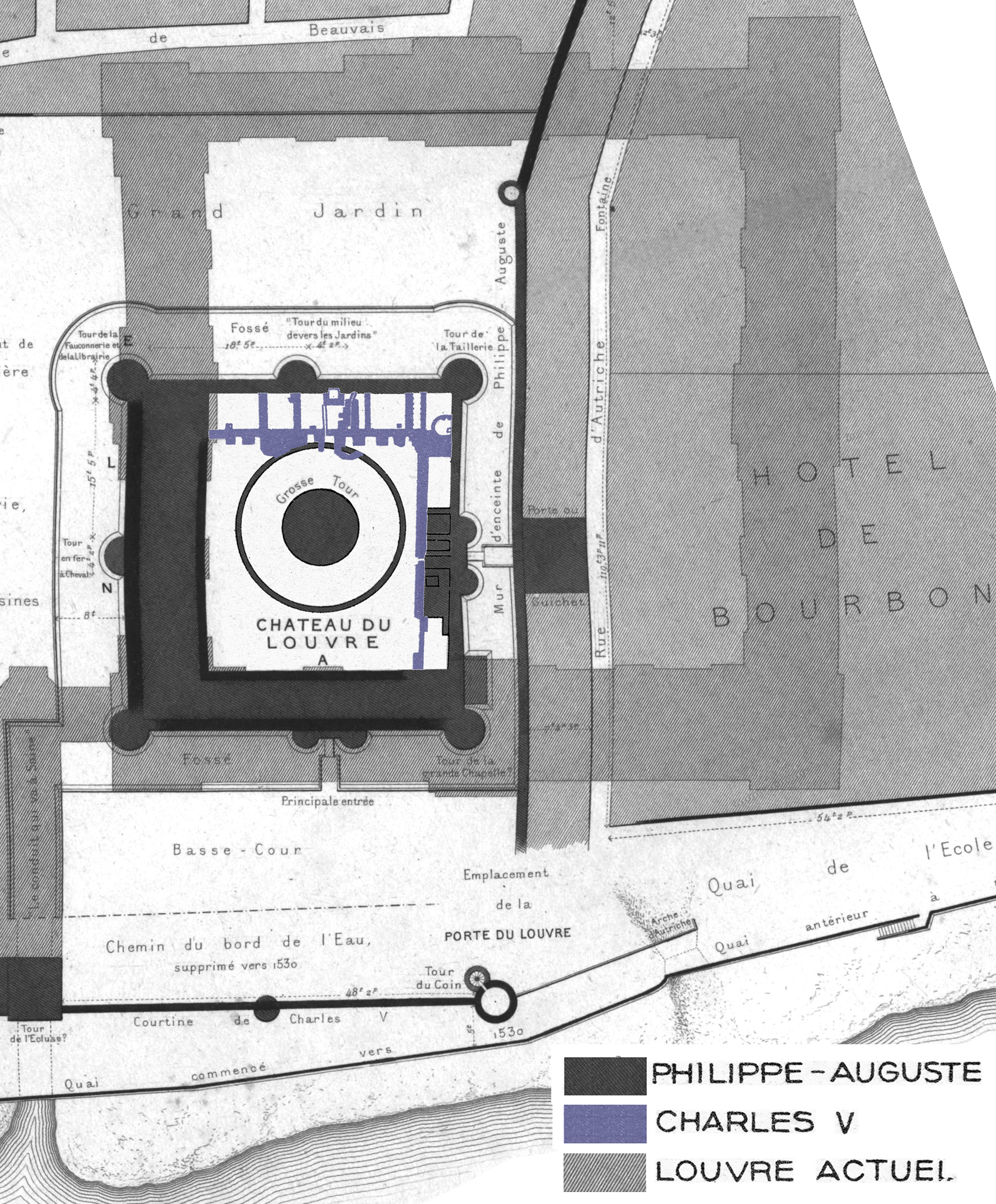 Plan of the medieval Louvre as constructed during the reign of Philippe-Auguste with a blue overlay showing the additions made during the reign of Charles V